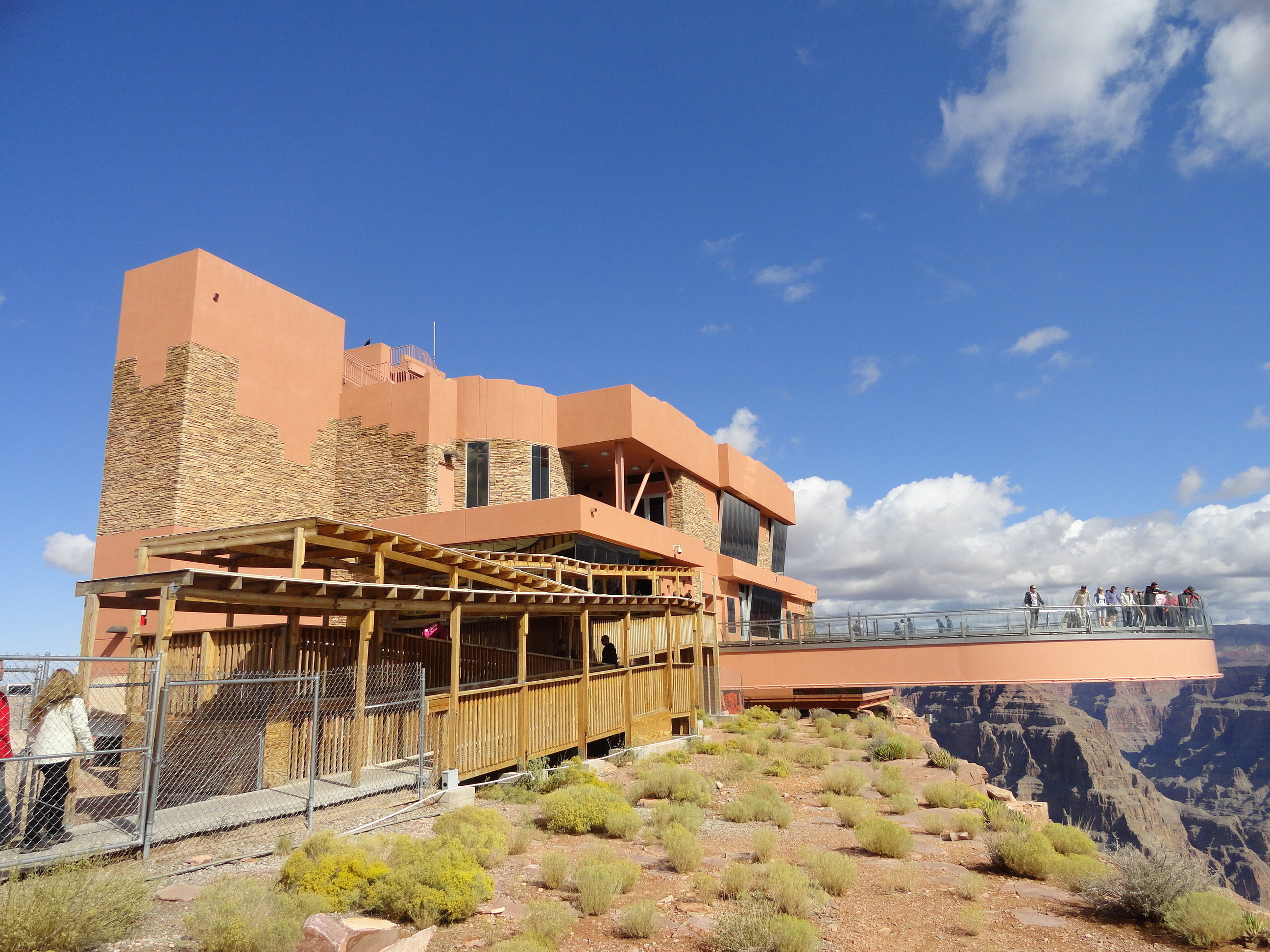 This is the building and the horseshoe-shaped transparent platform of the Skywalk at the edge of the Grand Canyon West Rim over Colorado River in Arizona, USA. You can visit our amazing travel blog at